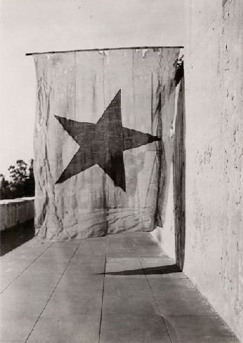 This is the first official and national flag of California. This is a photograph of the last known Californian Lone Star flag adopted after California's first Declaration of Independence from Mexico, Nov. 5, 1836. It is currently held at The Gene Autry Western Museum.